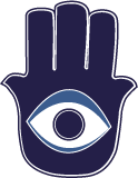 icon for wikipedia WikiProject Visual arts - I created it and release it to public domain. Read about this symbol here: Hamsa.